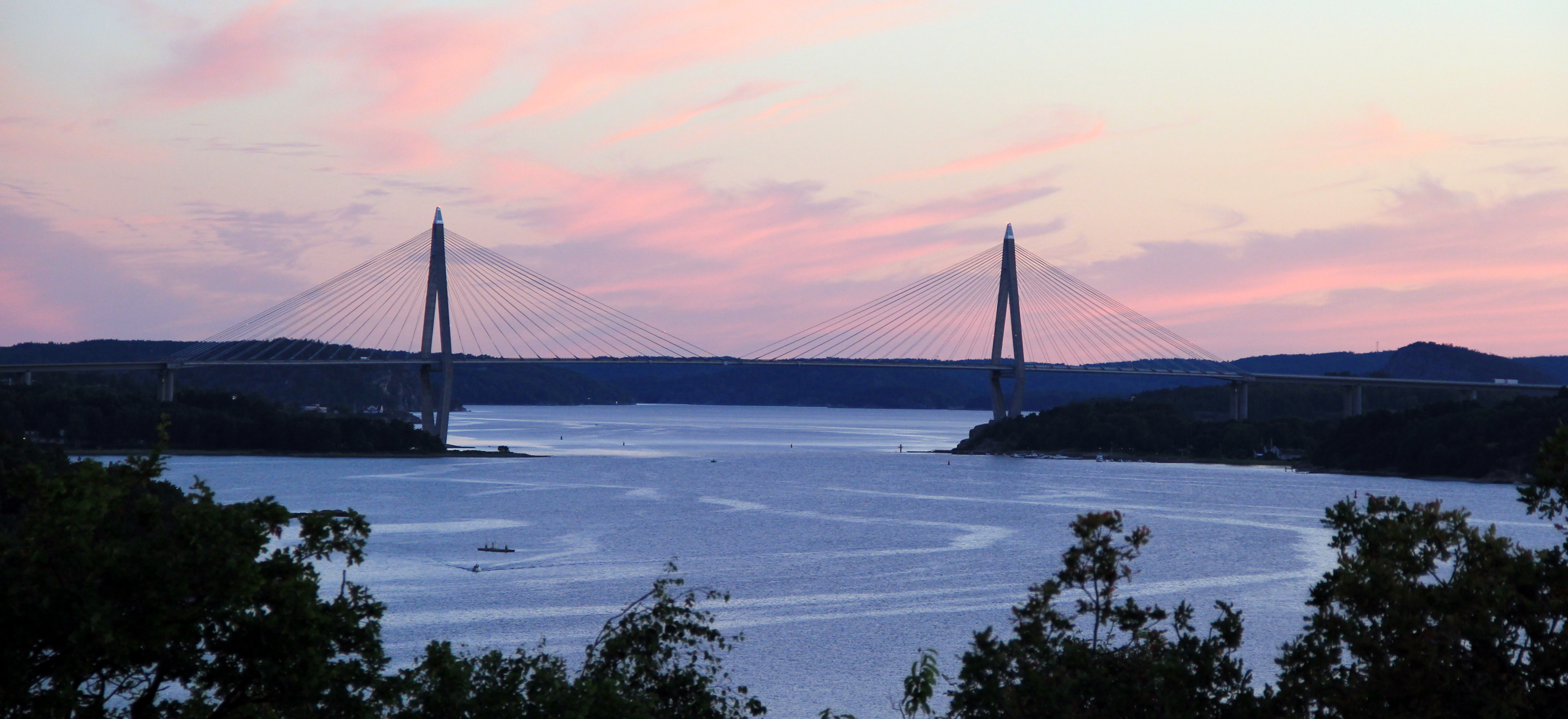 Uddevallabridge at night